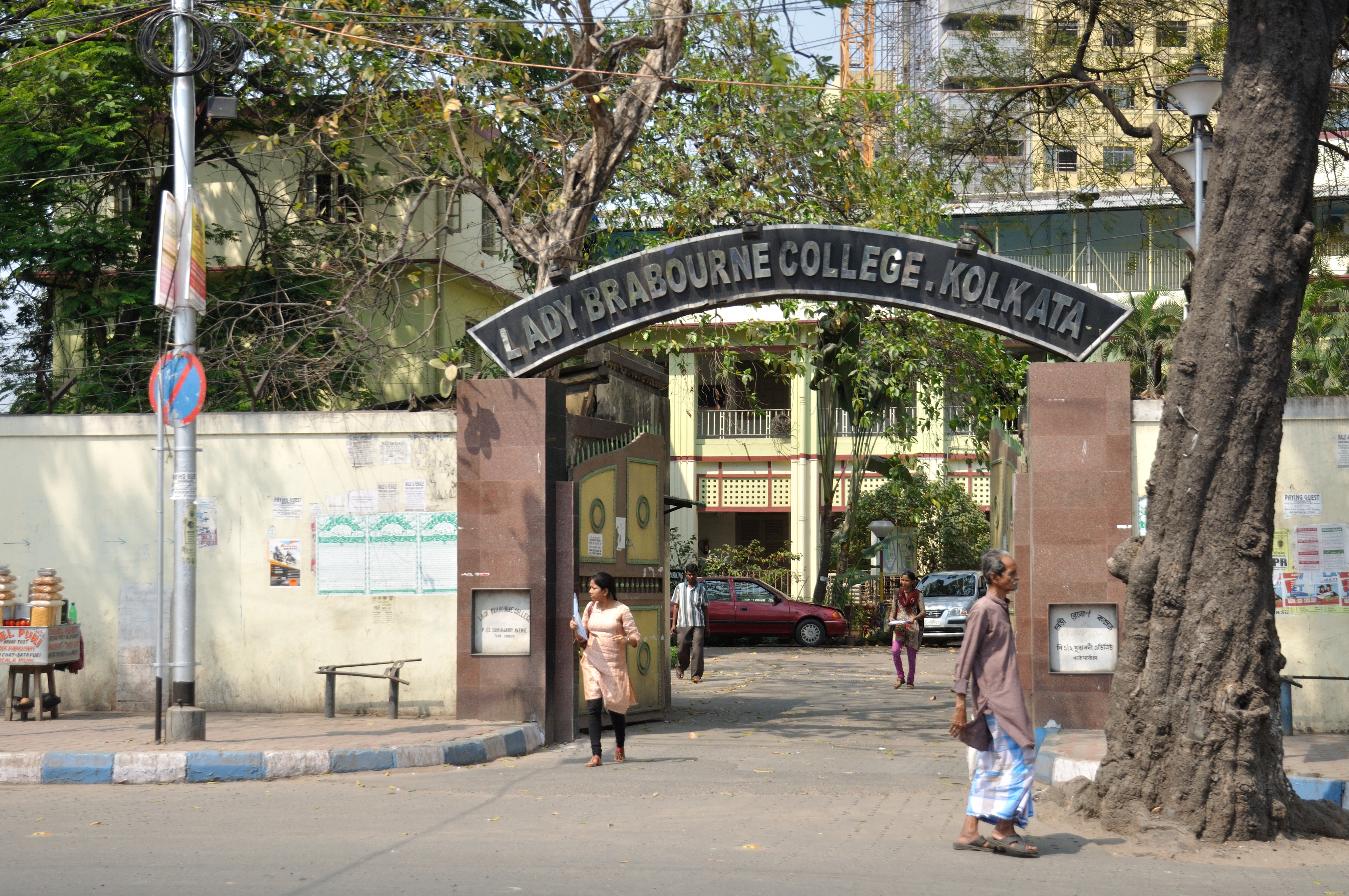 Photographed in kolkata.